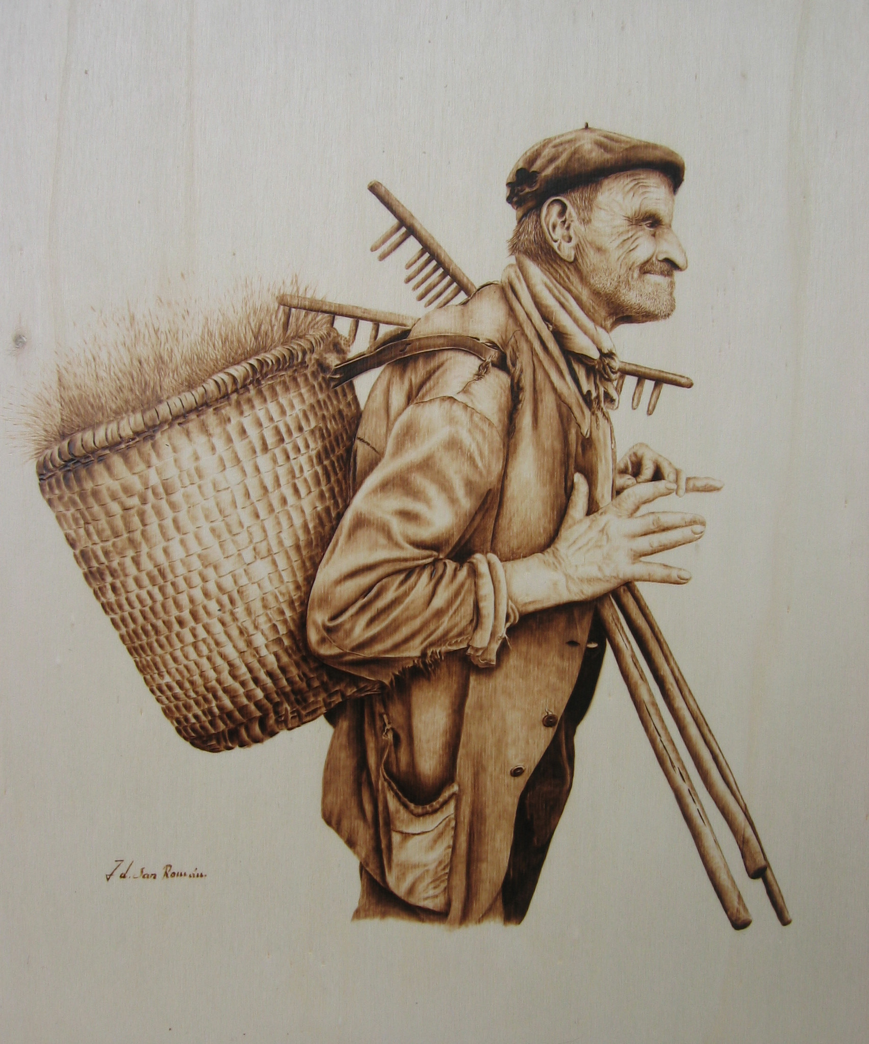 Pasiego carrying a basket. Pyrography on wood panel.